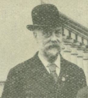 W. A. Appleton, secretary of the Federation of Engineering and Shipbuilding Trades, while on a trade union delegation to Washington DC in 1916